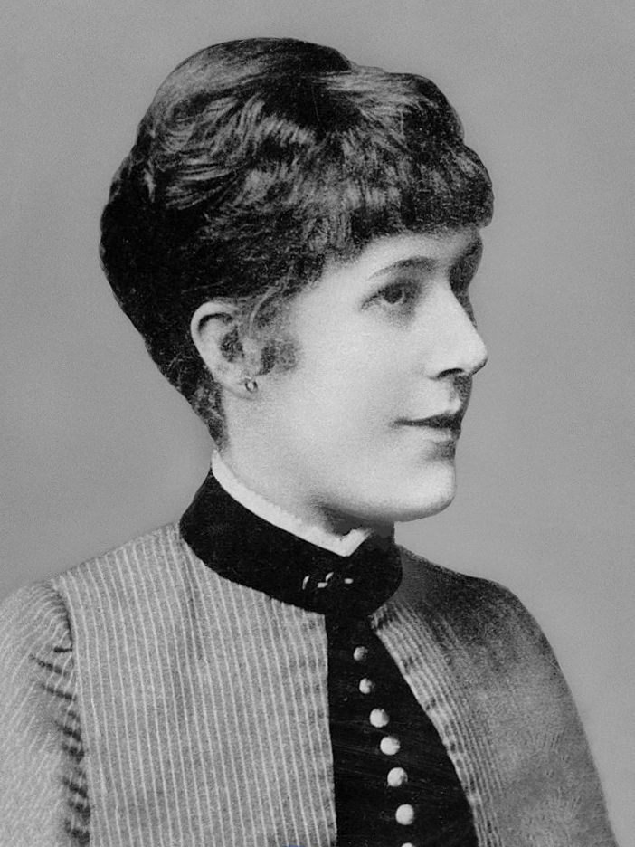 scan of photographic Portrait of Julia Mann (1851-1923) as a young woman ca 1875. She was mother of Heinrich Mann and Thomas Mann